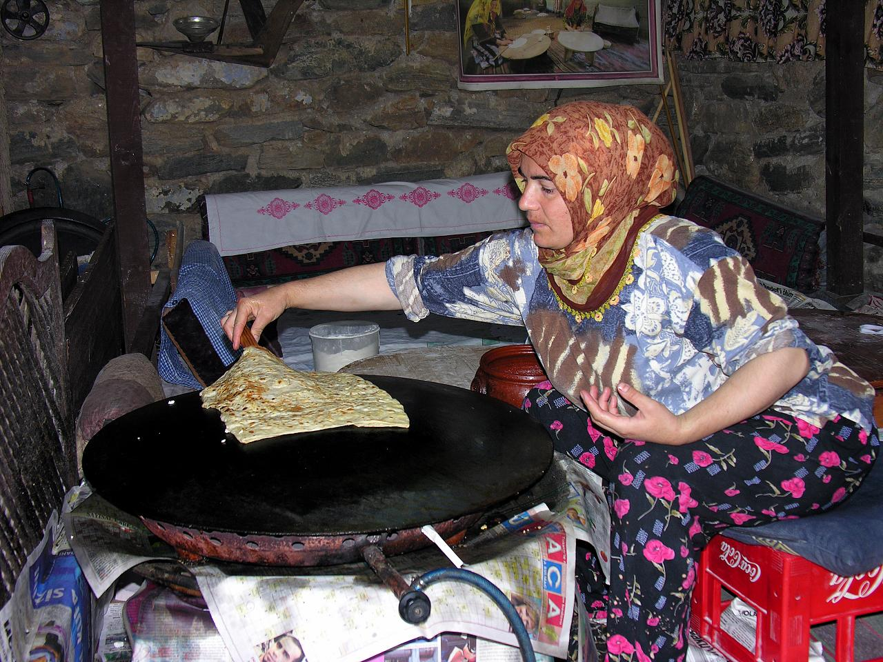 This lady was cooking on a gas fired "sac" (hot plate) in a restaurant. Cumalikizik Village, Turkey